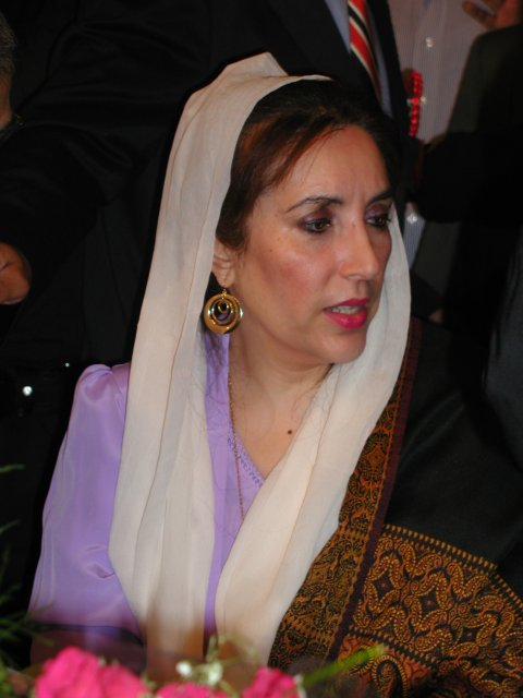 Benazir Bhutto, photographed at Chandini Restaurant, Newark, CA by iFaqeer